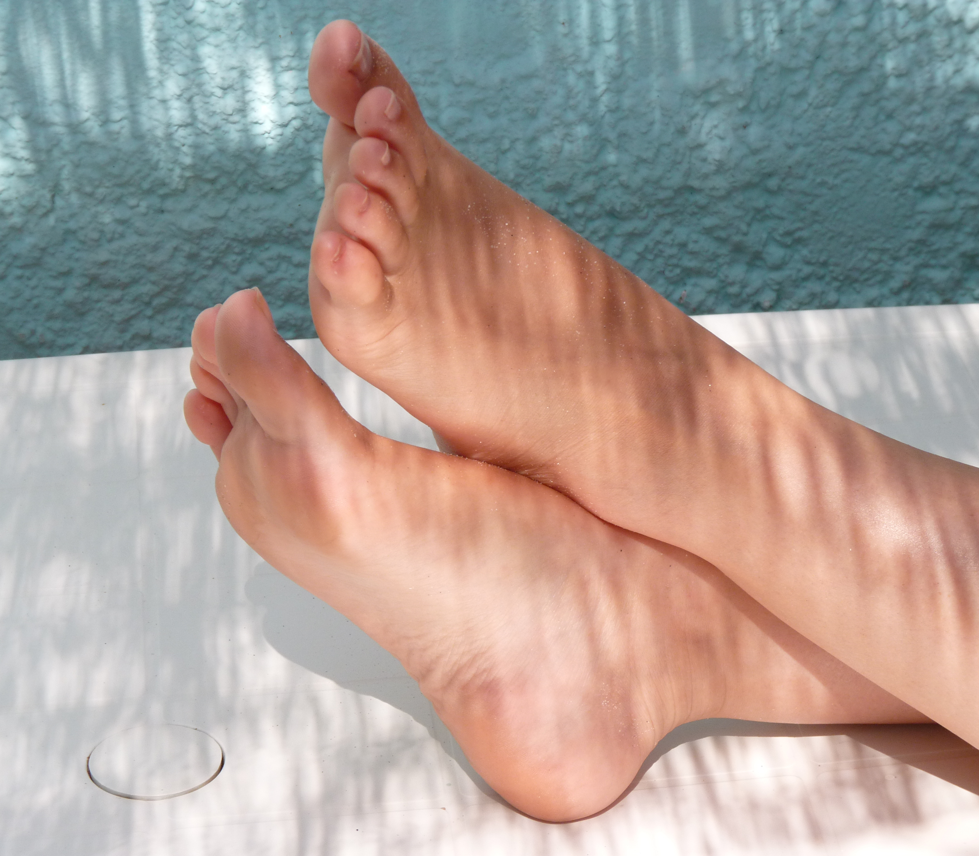 some perfect crossed feet